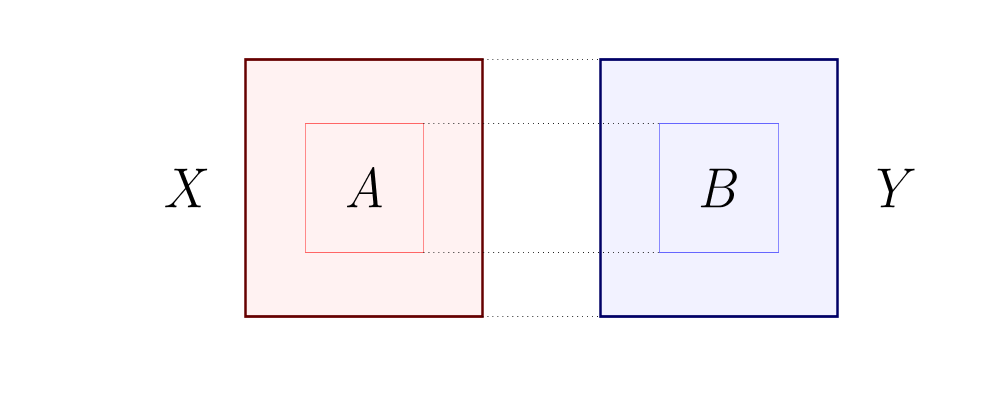 Diagram of epsilon regular pair